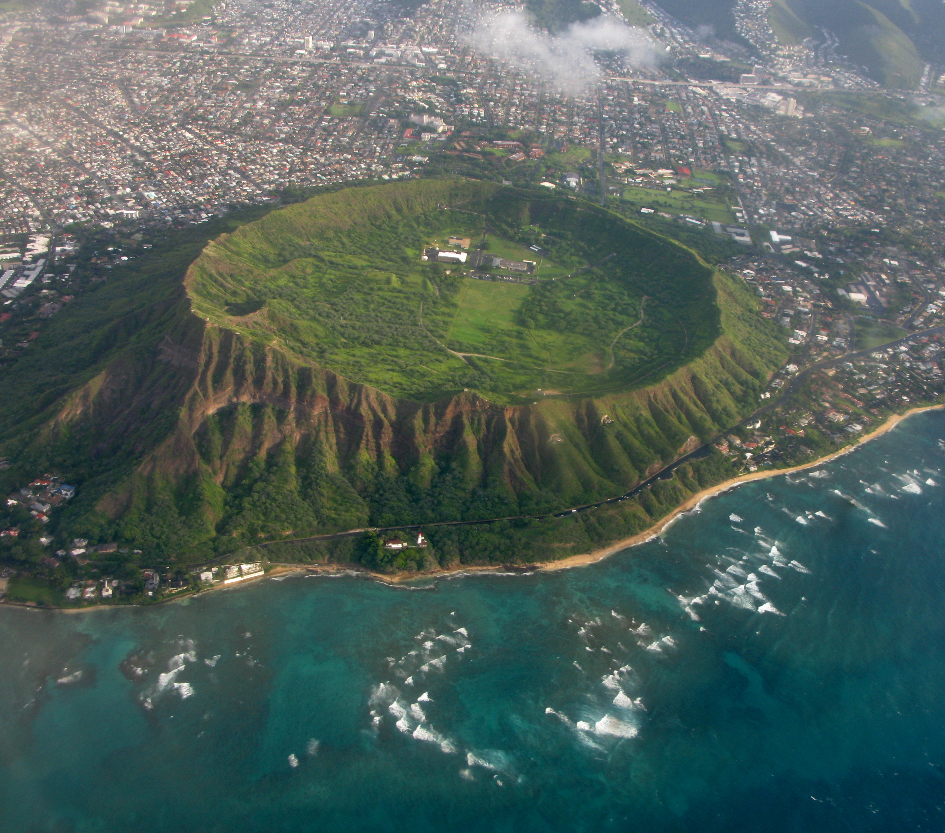 Aerial view of Diamond Head tuff cone in Oahu, Hawaii, USA.